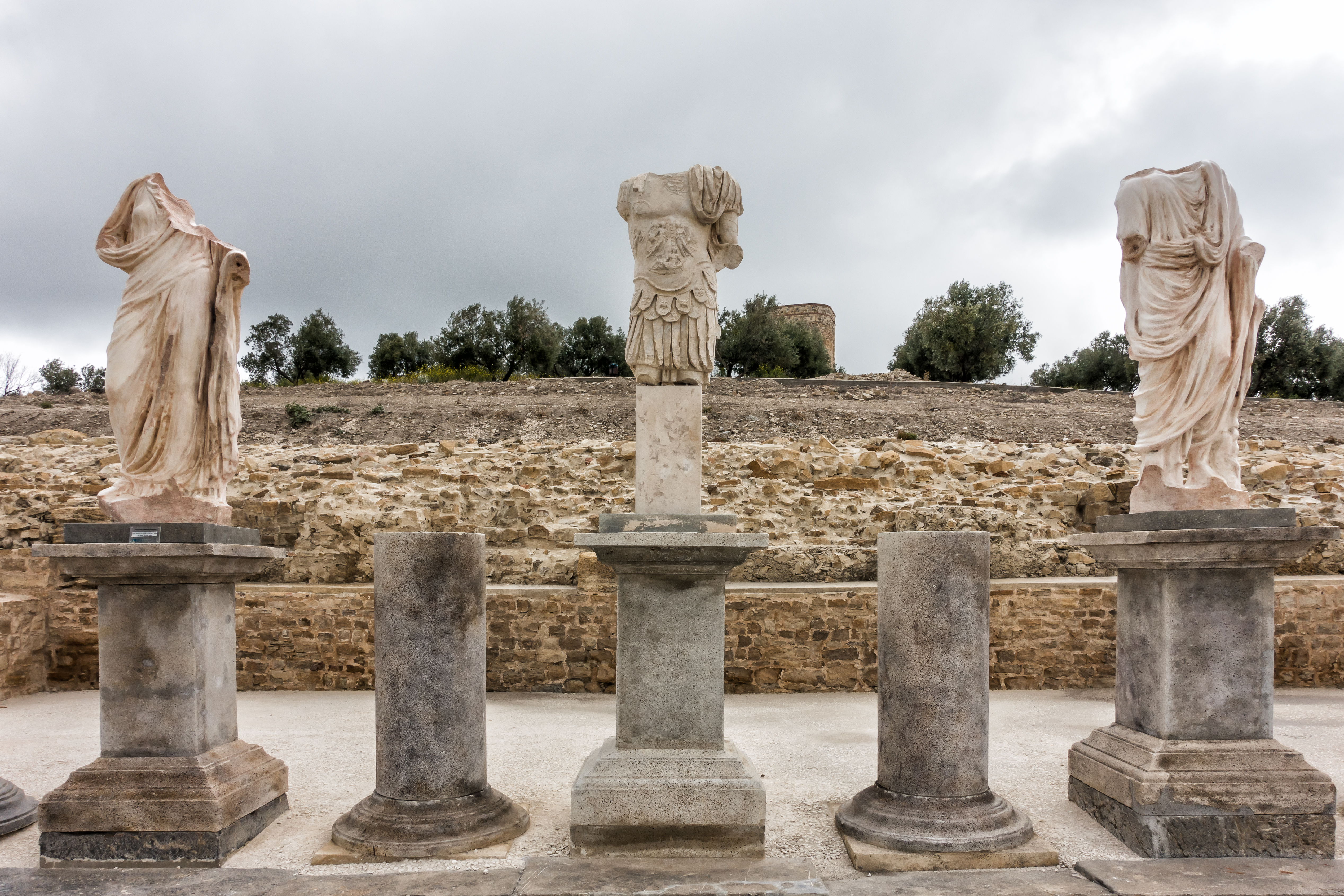 Torreparedones Archaeological Park in Baena, Cordoba, Spain. The forum.